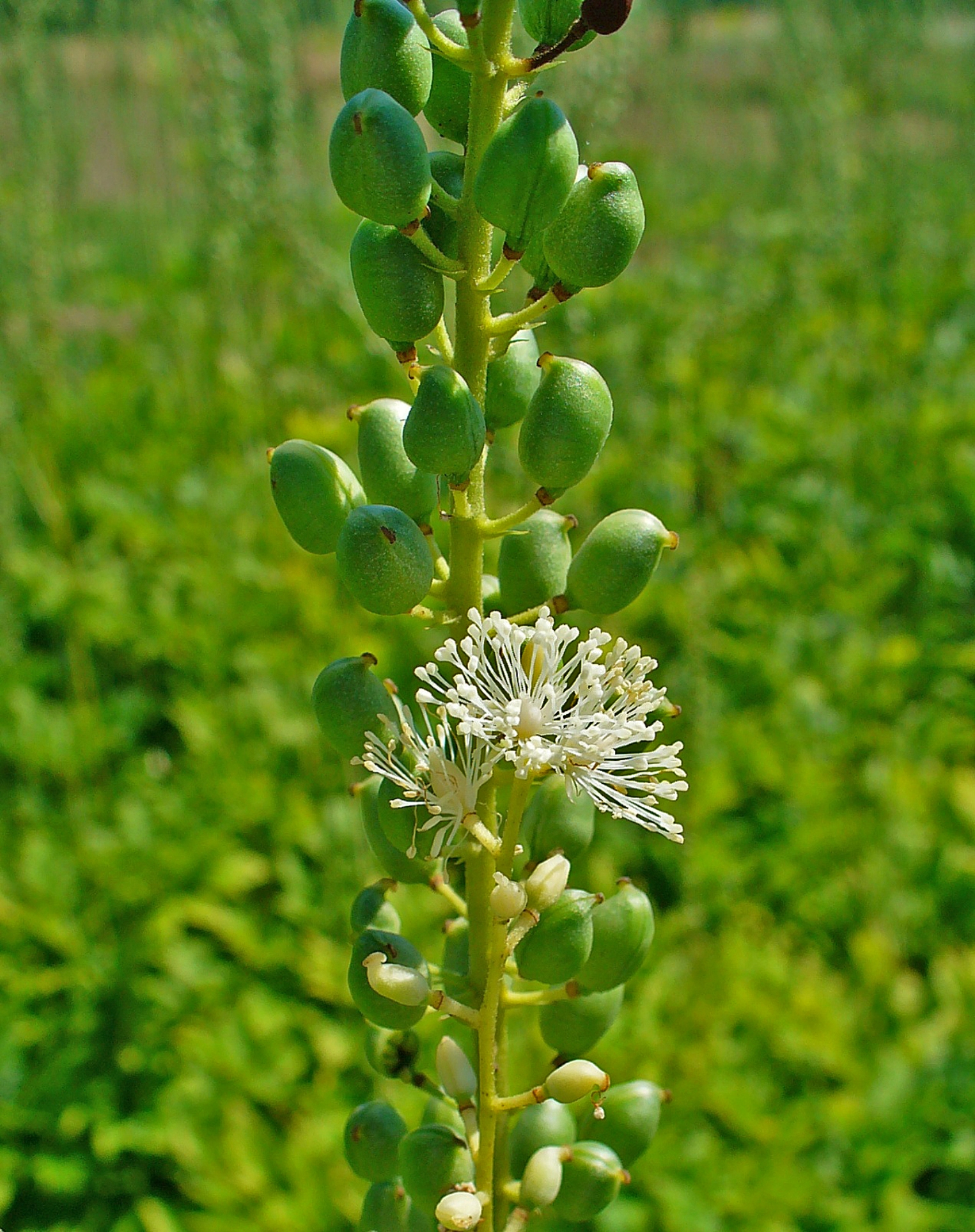 Actaea racemosa, Ranunculaceae, Black Cohosh, Black Bugbane or Black Snakeroot, Fairy Candle, fruit development. Stutensee, Germany.